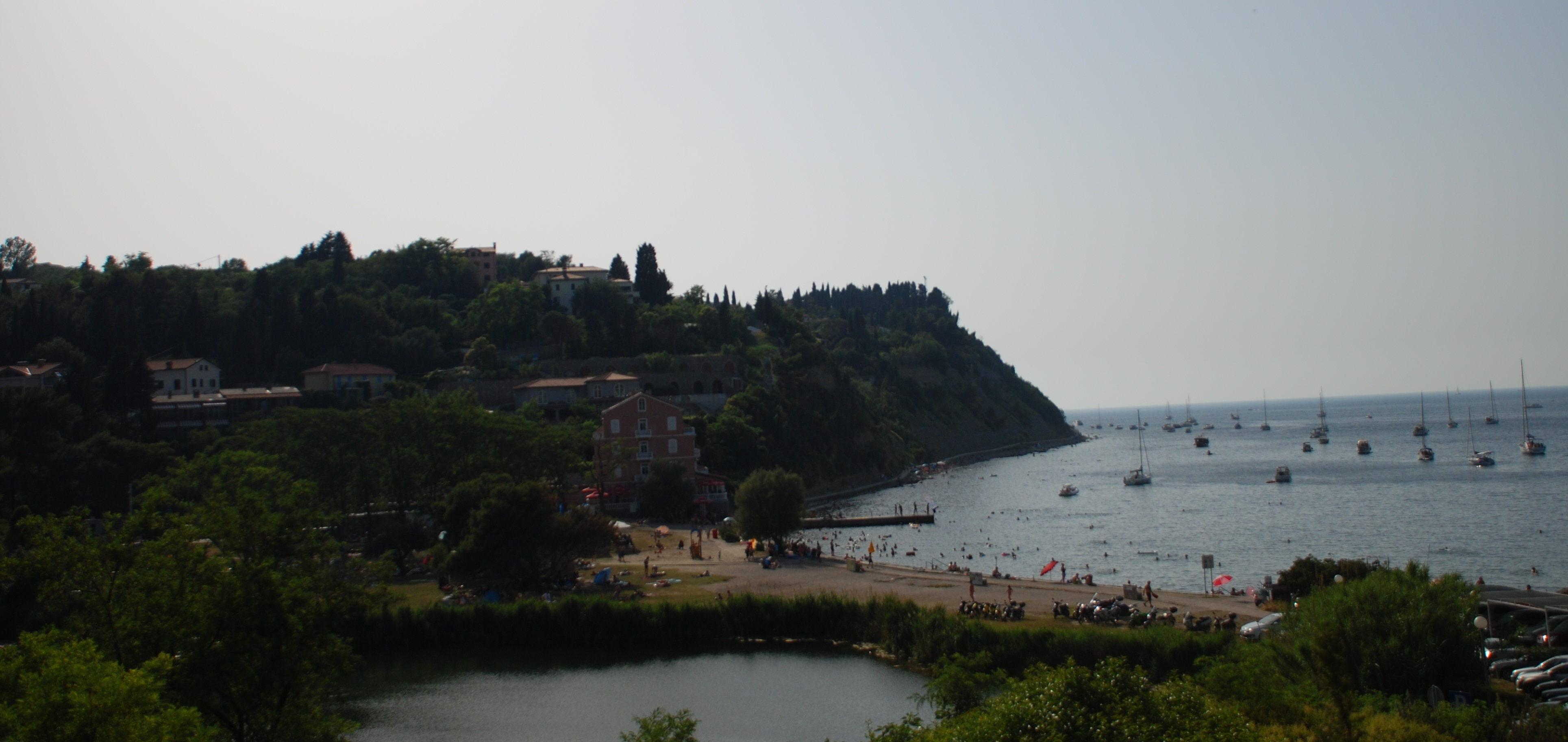 Fiesa, Portorož, Slovenia. The bay and the greater lake. Hot summer afternoon, end of June 2012.